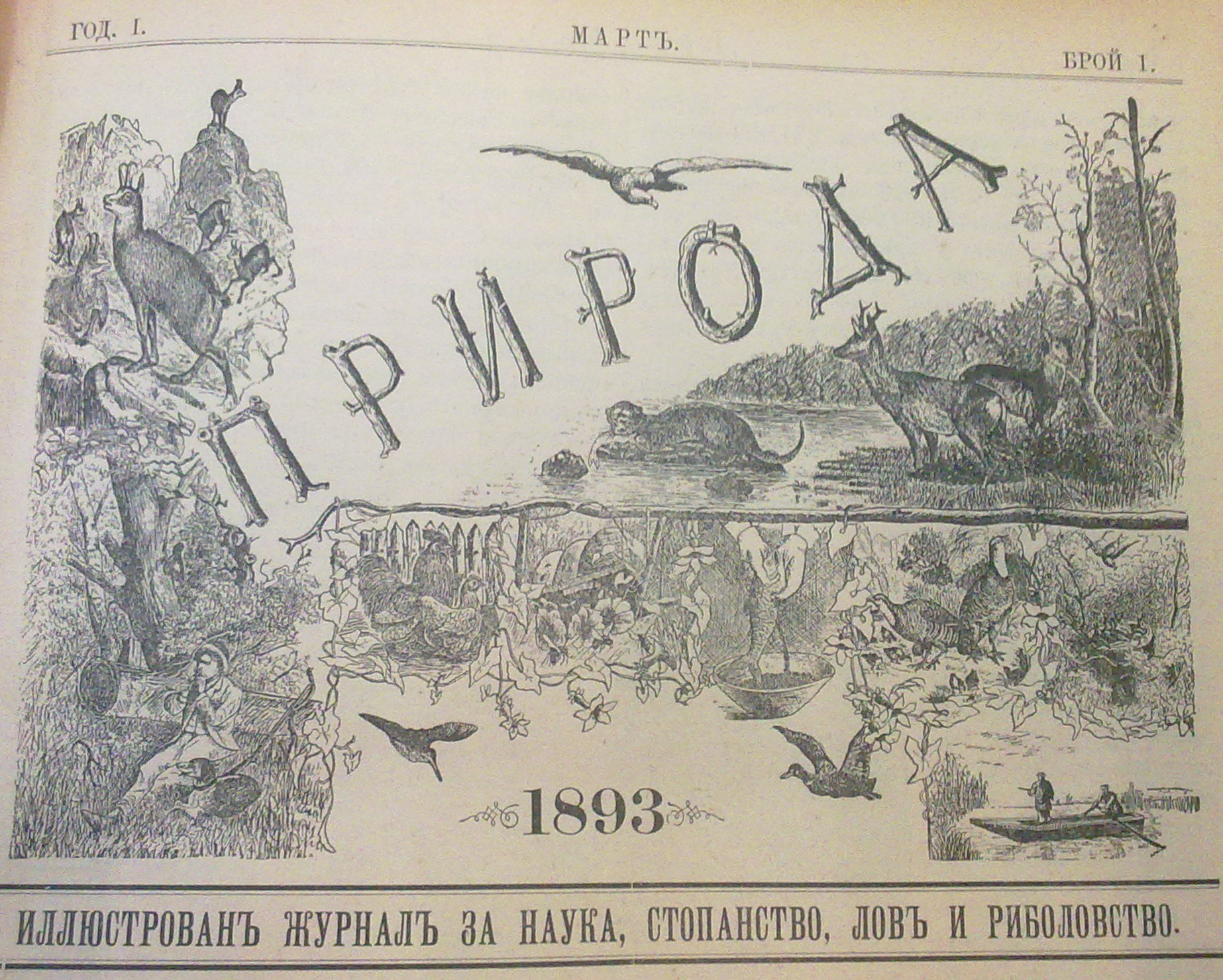 Bulgarian magazine Nature, 1893